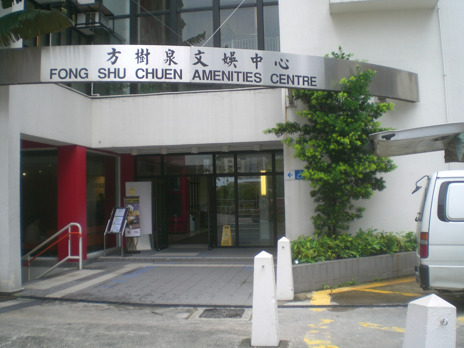 香港大學zh:太古樓zh:方樹泉文娛中心